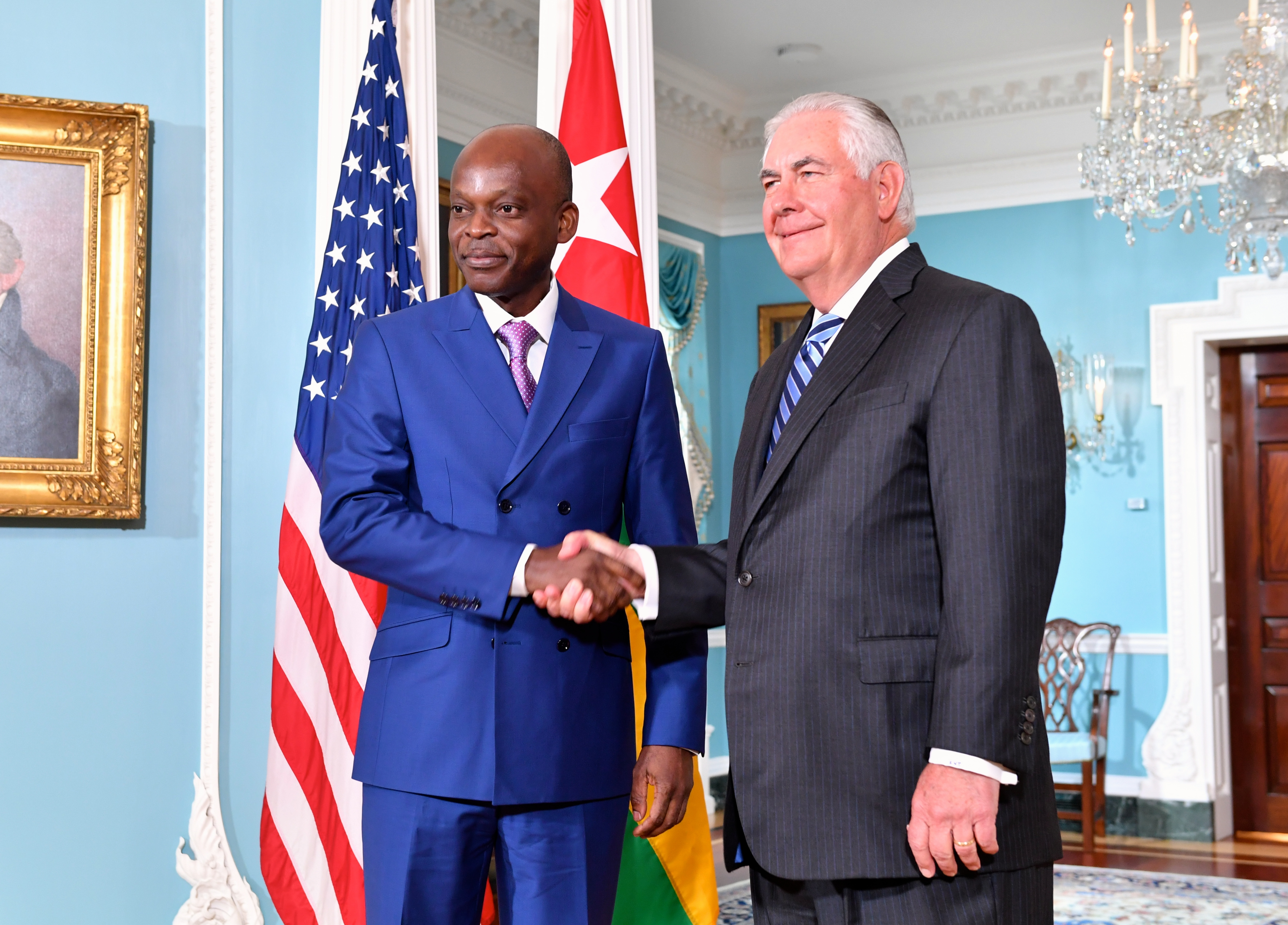 U.S. Secretary of State Rex Tillerson and Togolese Foreign Minister Robert Dussey pose for a photo before their meeting at the U.S. Department of State in Washington, D.C. on June 29, 2017. [State Department Photo/ Public Domain]